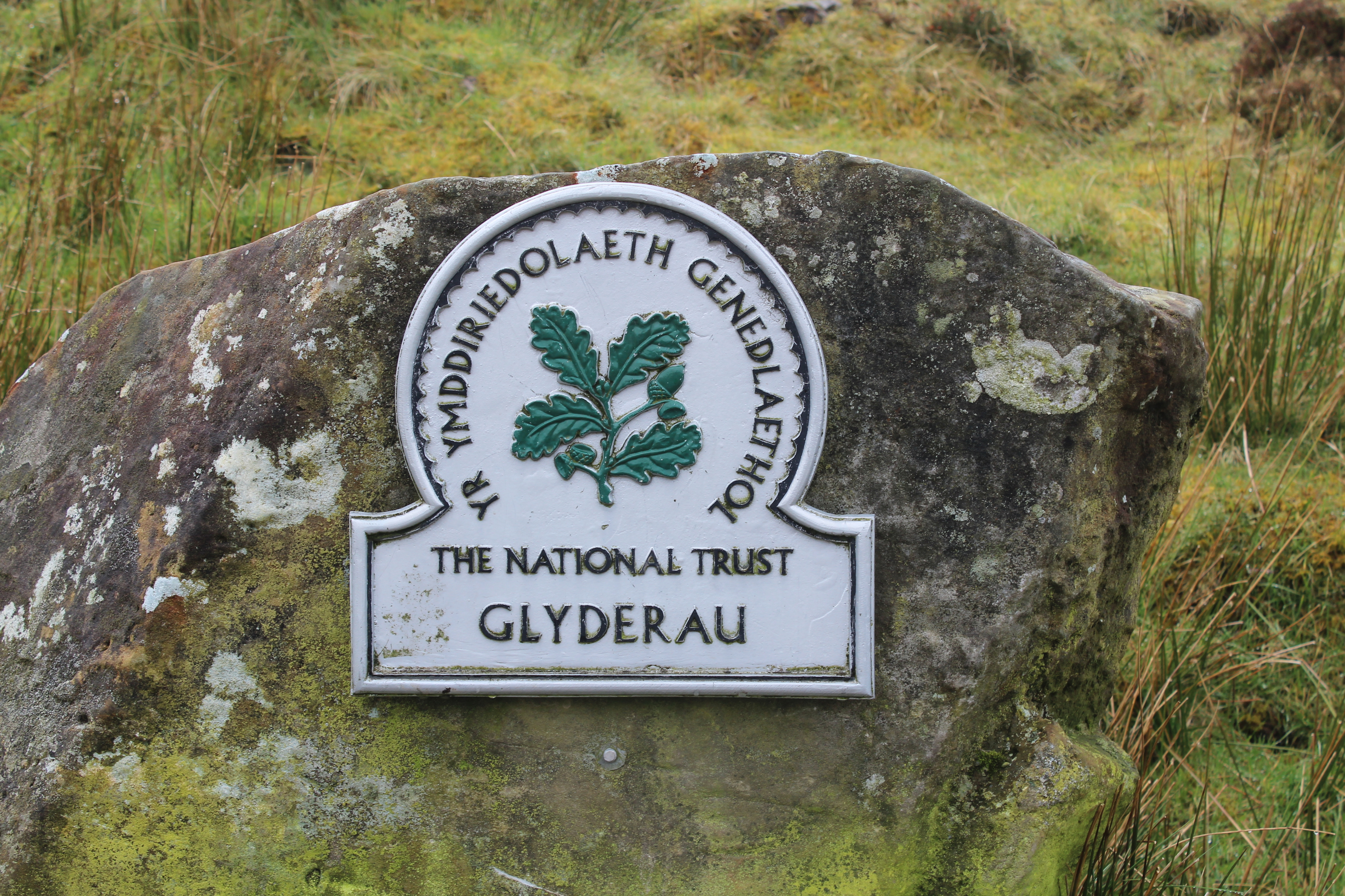 National Trust plaque close to the point where the footpath up the Glyderau (Snowdonia) from the Ogwen Warden Centre to Llyn Idwel and the Devil's Kitchen (or Y Garn) crosses into National Trust's property. The words "Yr Ymddiriedolaeth Genedlaethol" is Welsh for "The National Trust". Altitude 320 metres.